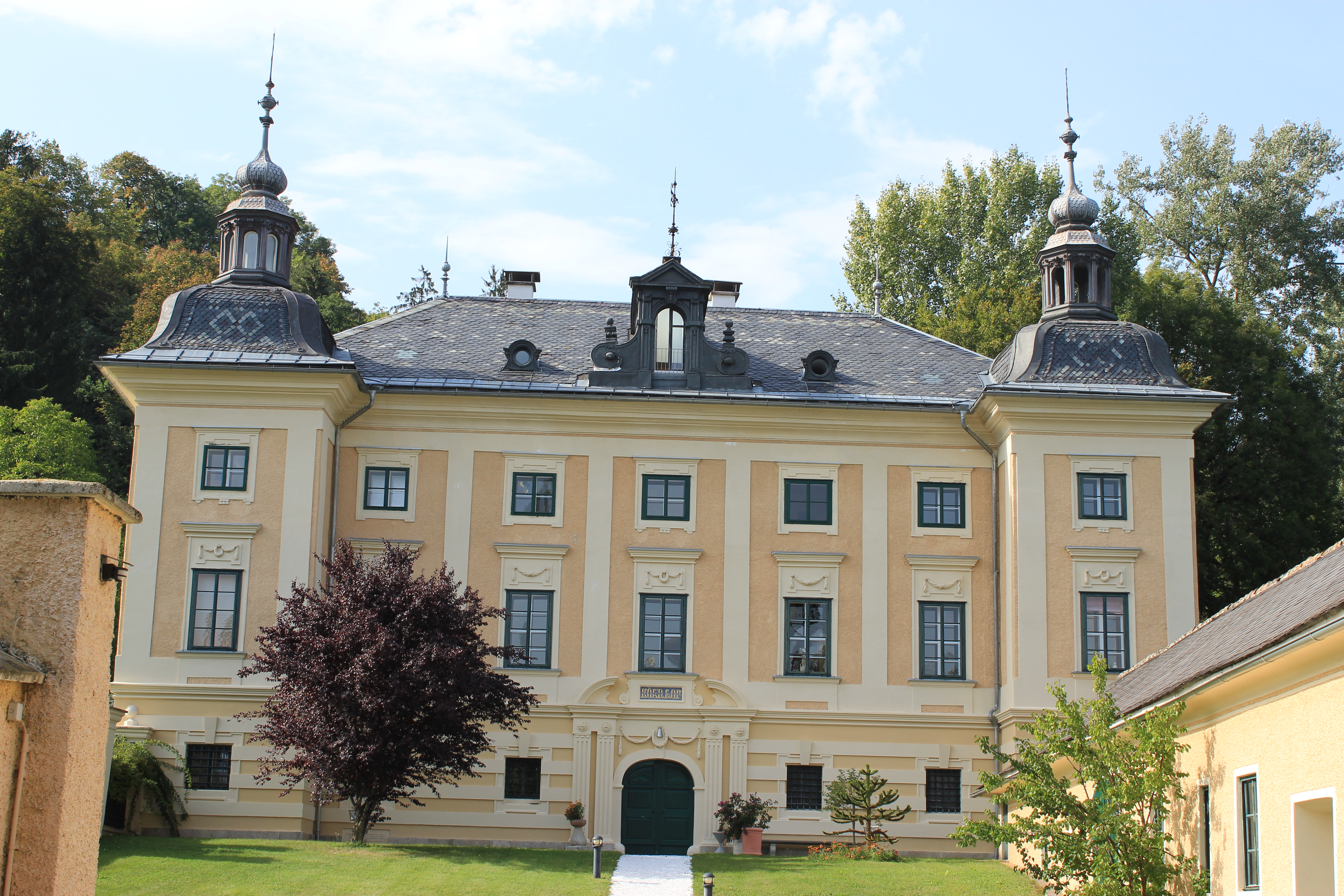 Kölnhof catle in Sankt Veit an der Glan